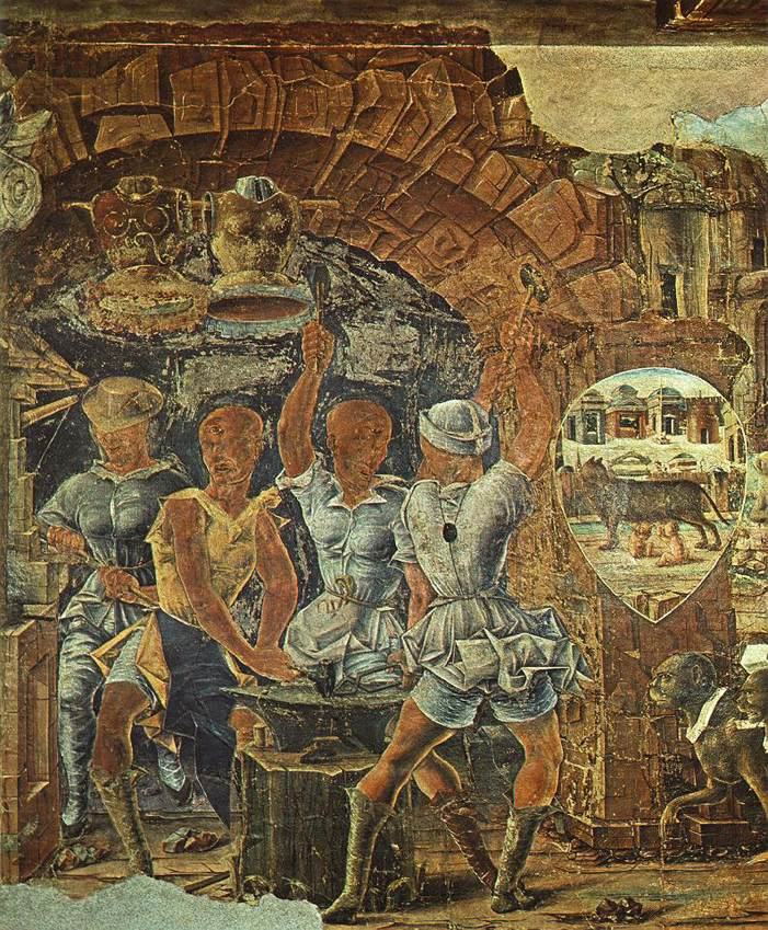 Ercole de' Roberti Allegory of September Fresco Palazzo Schifanoia, Ferrara